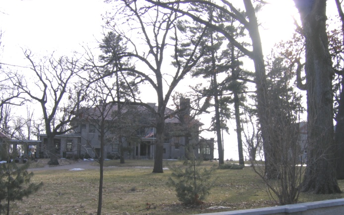 McClellan Heights neighborhood house